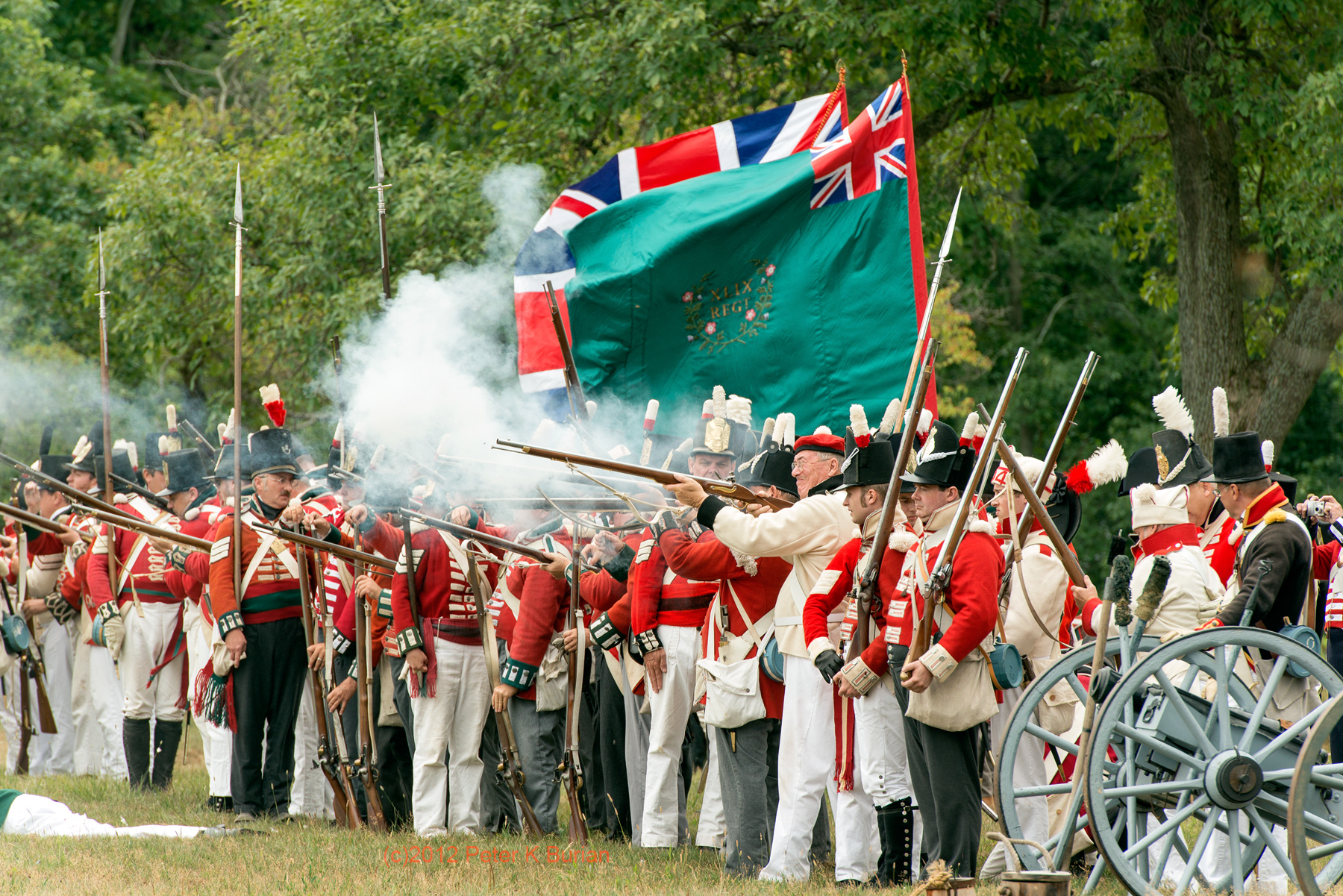 War of 1812 Re-enactment, Old Fort Erie, Ontario